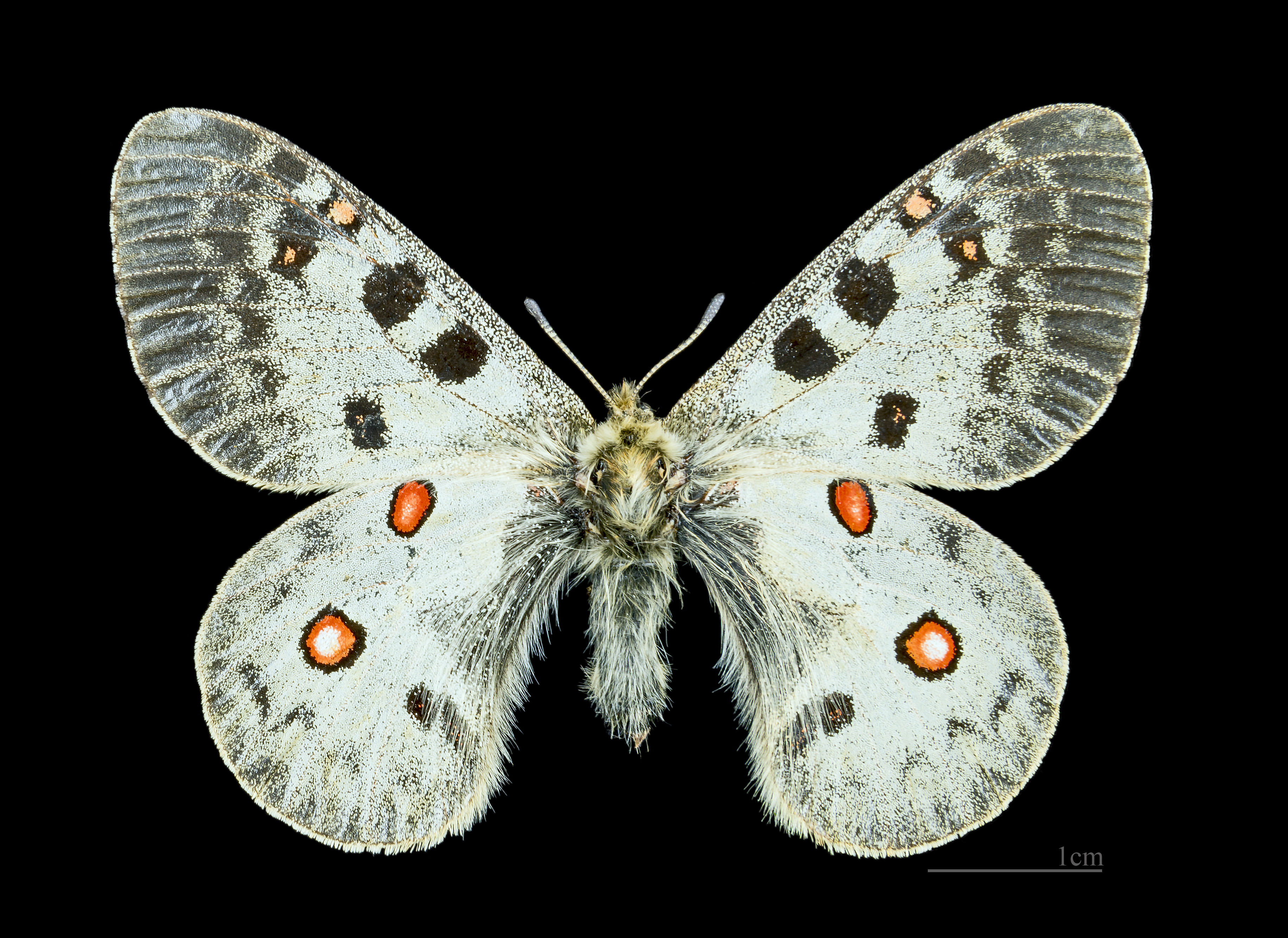 Phoebus Apollo. Dorsal side. Face dorsale